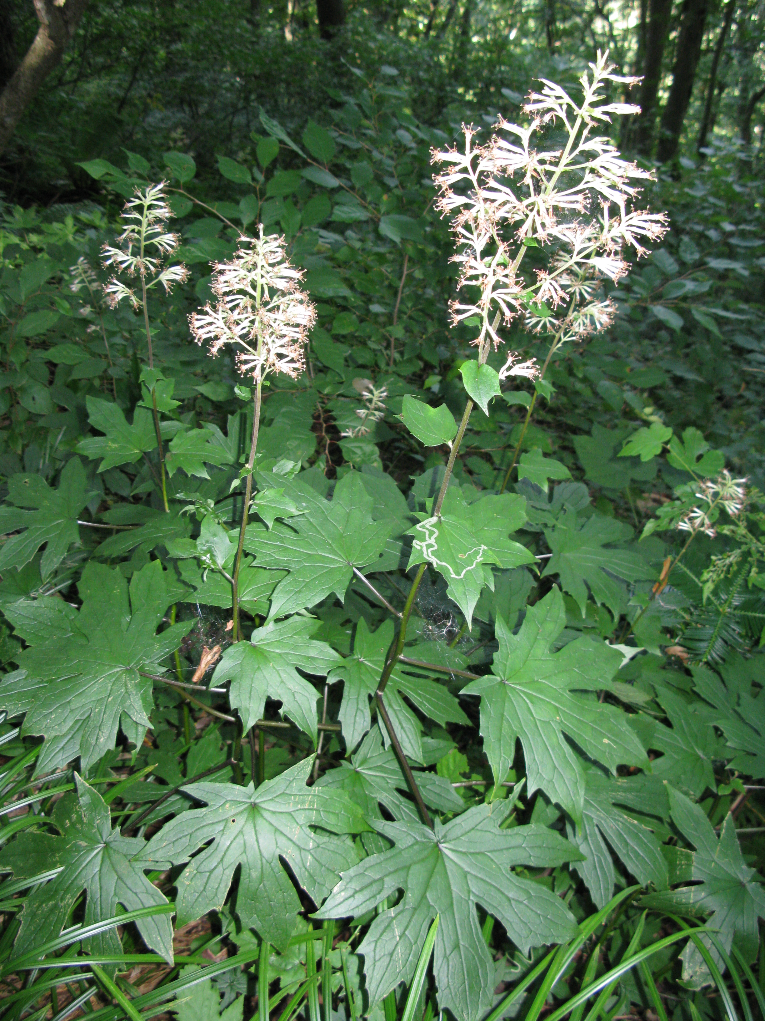 Parasenecio delphiniifolius, Aizu area, Fukushima pref., Japan